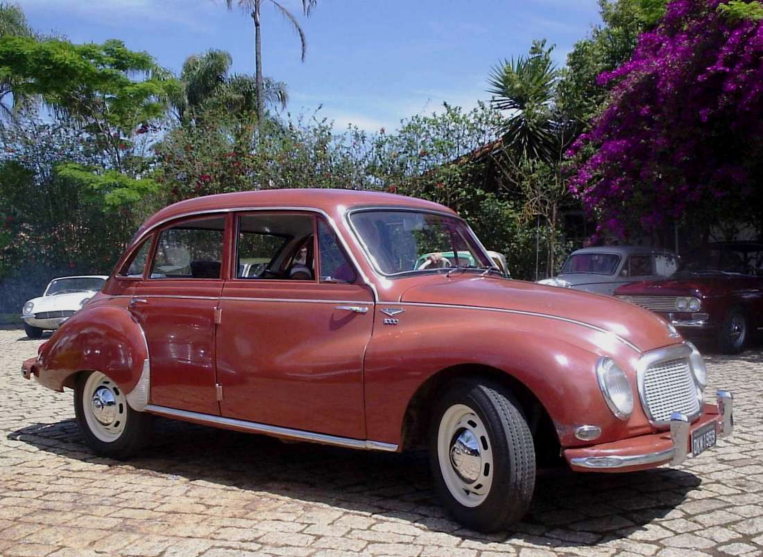 The Brazilian DKW Sedan (later called Belcar). Made by Vemag.